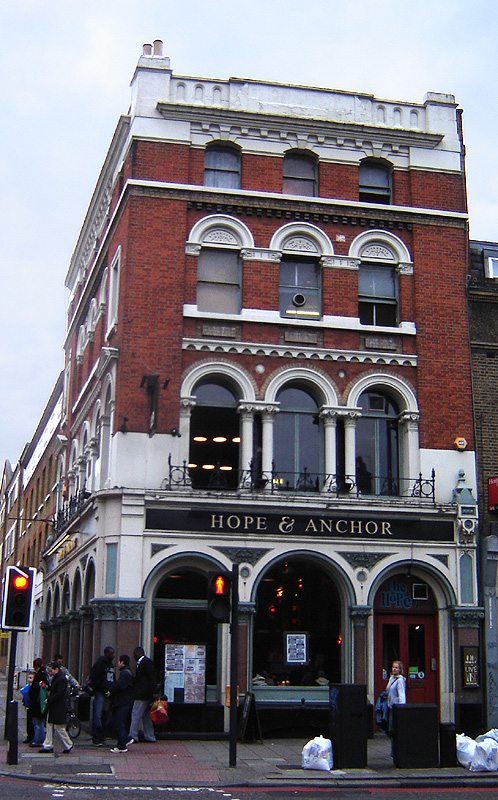 Hope and Anchor pub, Upper Street, Islington, London. 3 October 2005. Photographer: Fin Fahey.